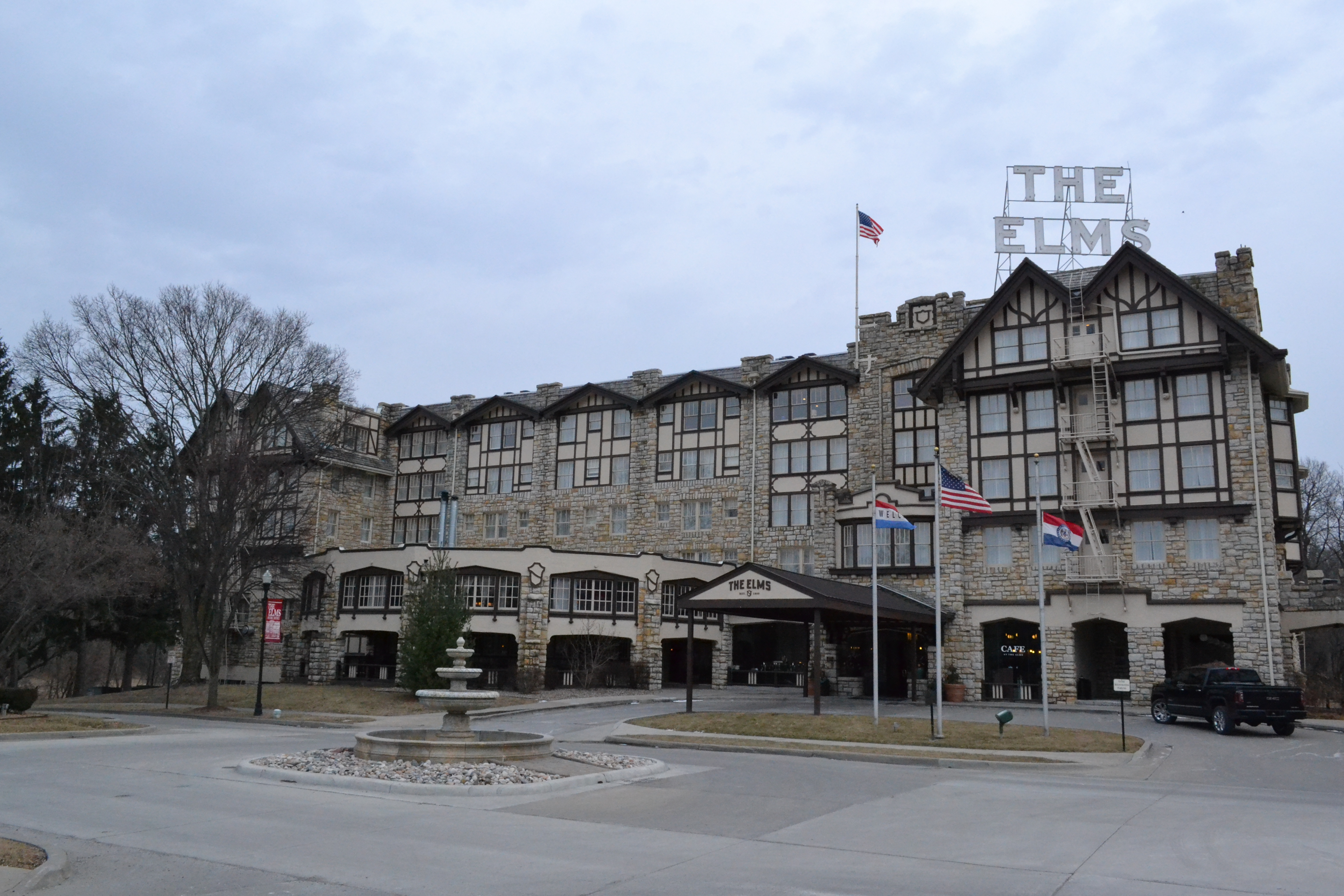 The Elms Hotel in Excelsior Springs, Missouri, in 2018. Listed on the National Register of Historic Places.